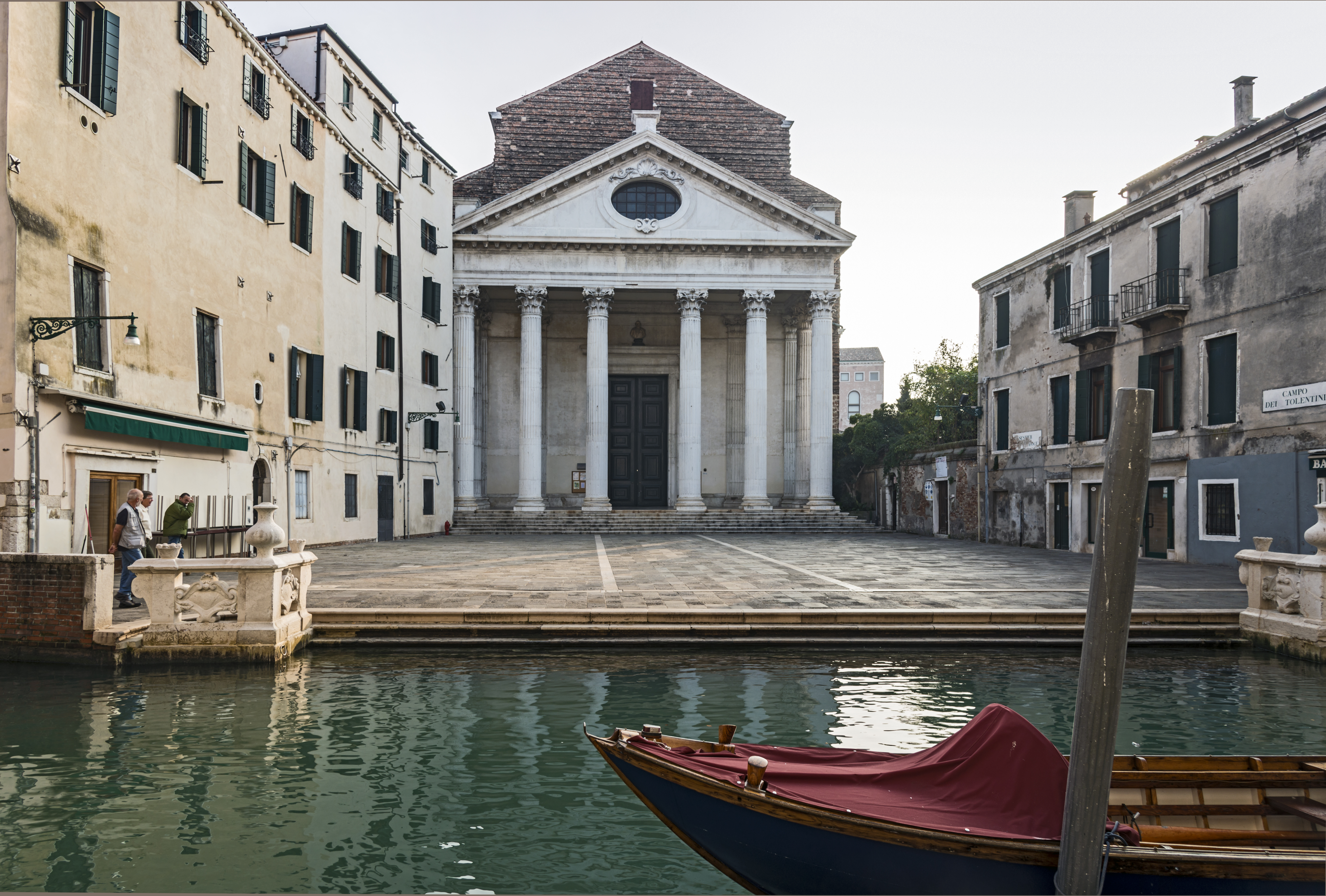 Campo dei Tolentini to Venice. View from Fondamenta Condulmer.